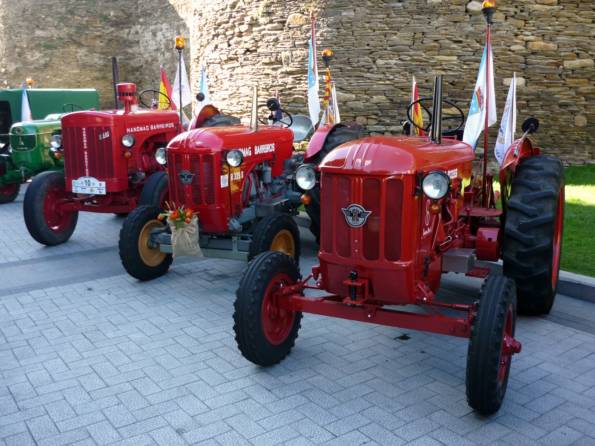 Hanomag Barreiros tractors (R.545? and two R 355 S models) in Lugo, Galicia, Spain